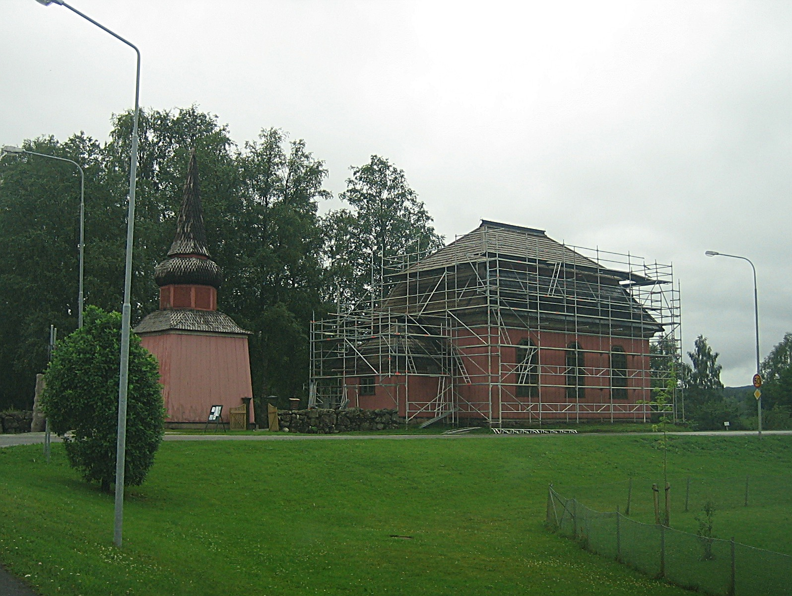 Stugun´s old Church.